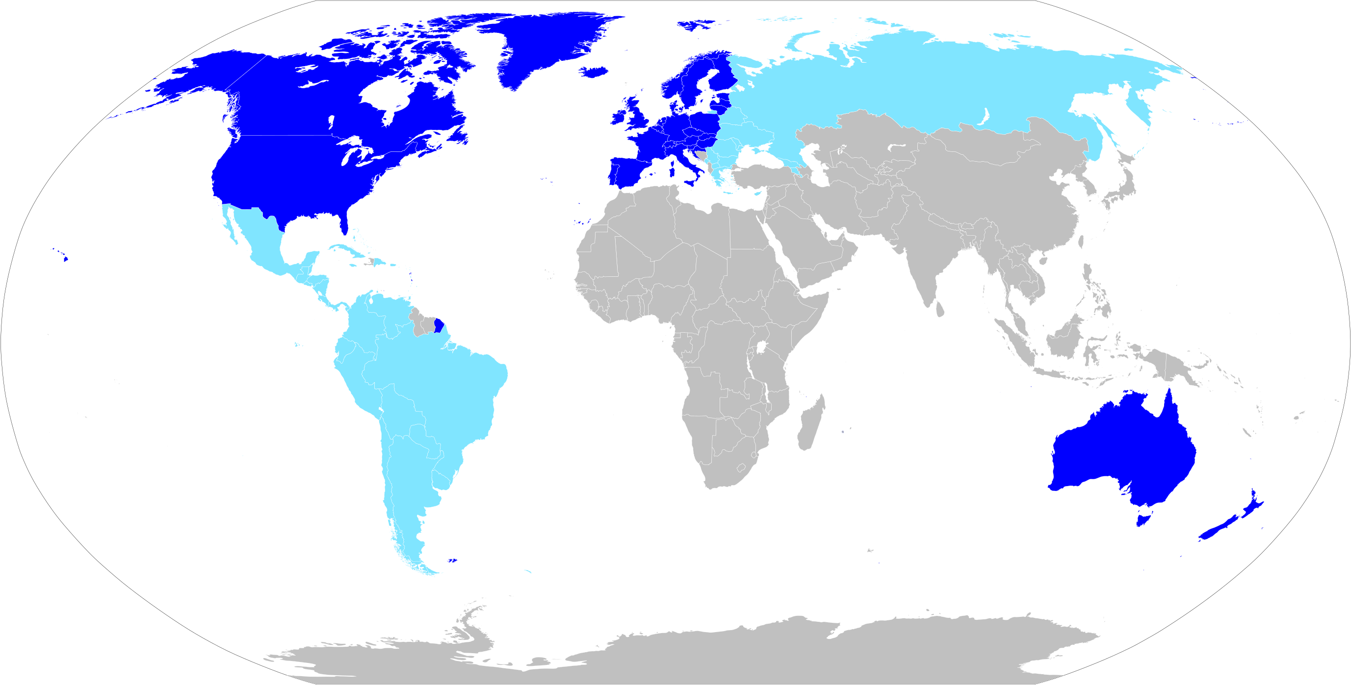 Western World from Huntington's book Clash of Civilizations, including semi-Western/torn countries, that are either already part of the West or in the process of joining the West.